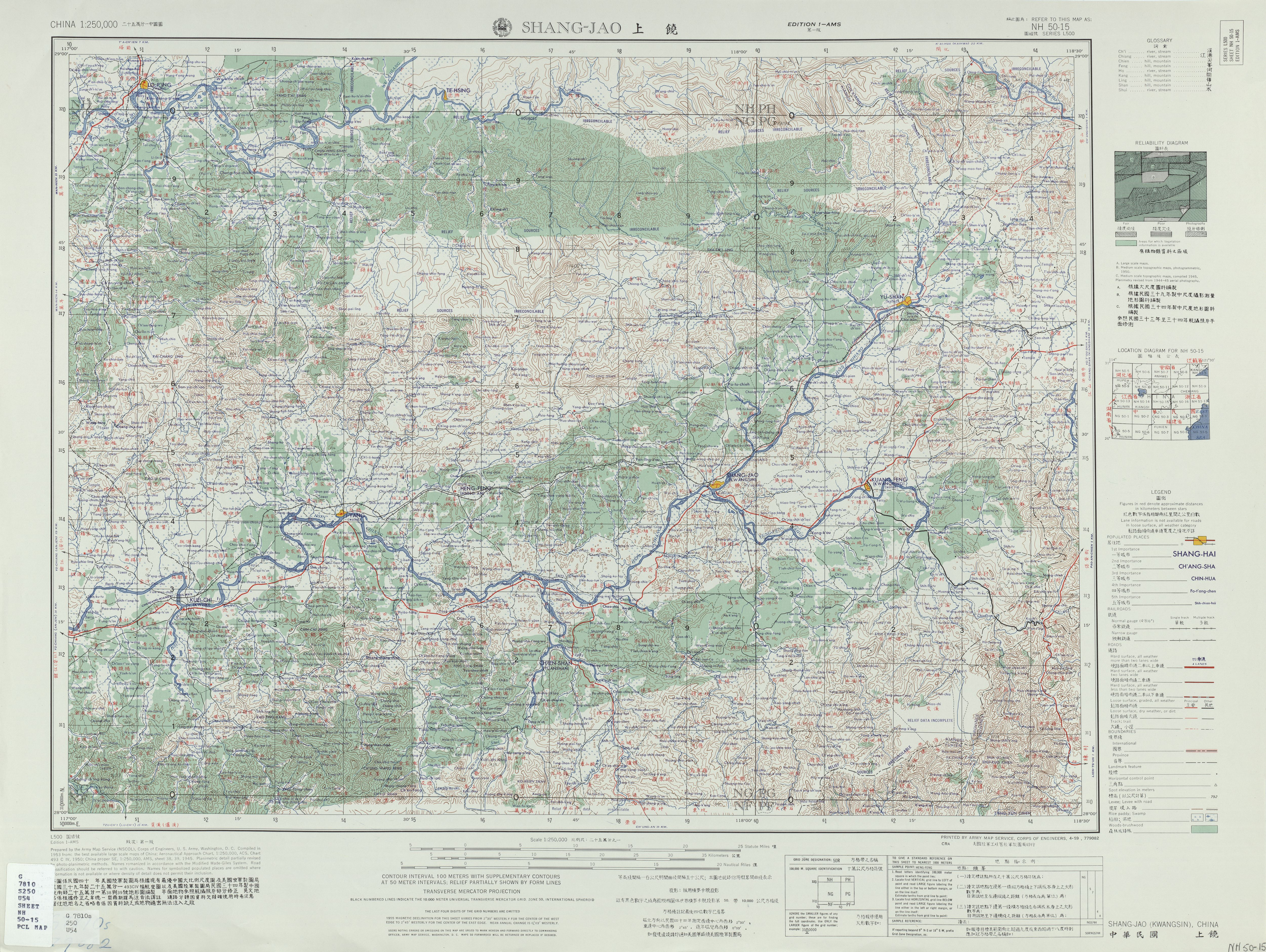 Map of Shangrao (Shang-jao, Kwangsin) and surrounding region, in the China AMS Topographic Maps series